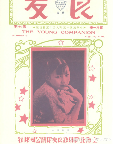 Cover of Liangyou magazine #7, featuring actress Like Dandon (李旦旦), also known as Li Xiaqing or Lixia Wing.